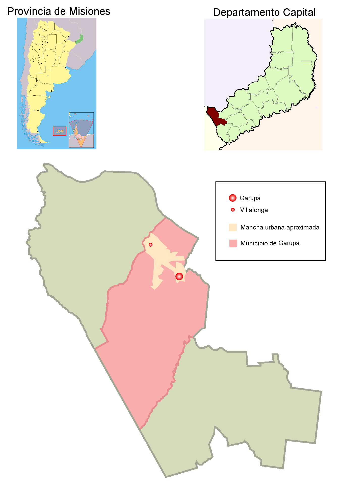 A map showing municipio of Garupá in Capital departament, Misiones province, Argentina. Also shows Garupá town location, Villalonga town location, and their urban sector; Villalonga is also known as "Expansión de Posadas". Created with GIMP.